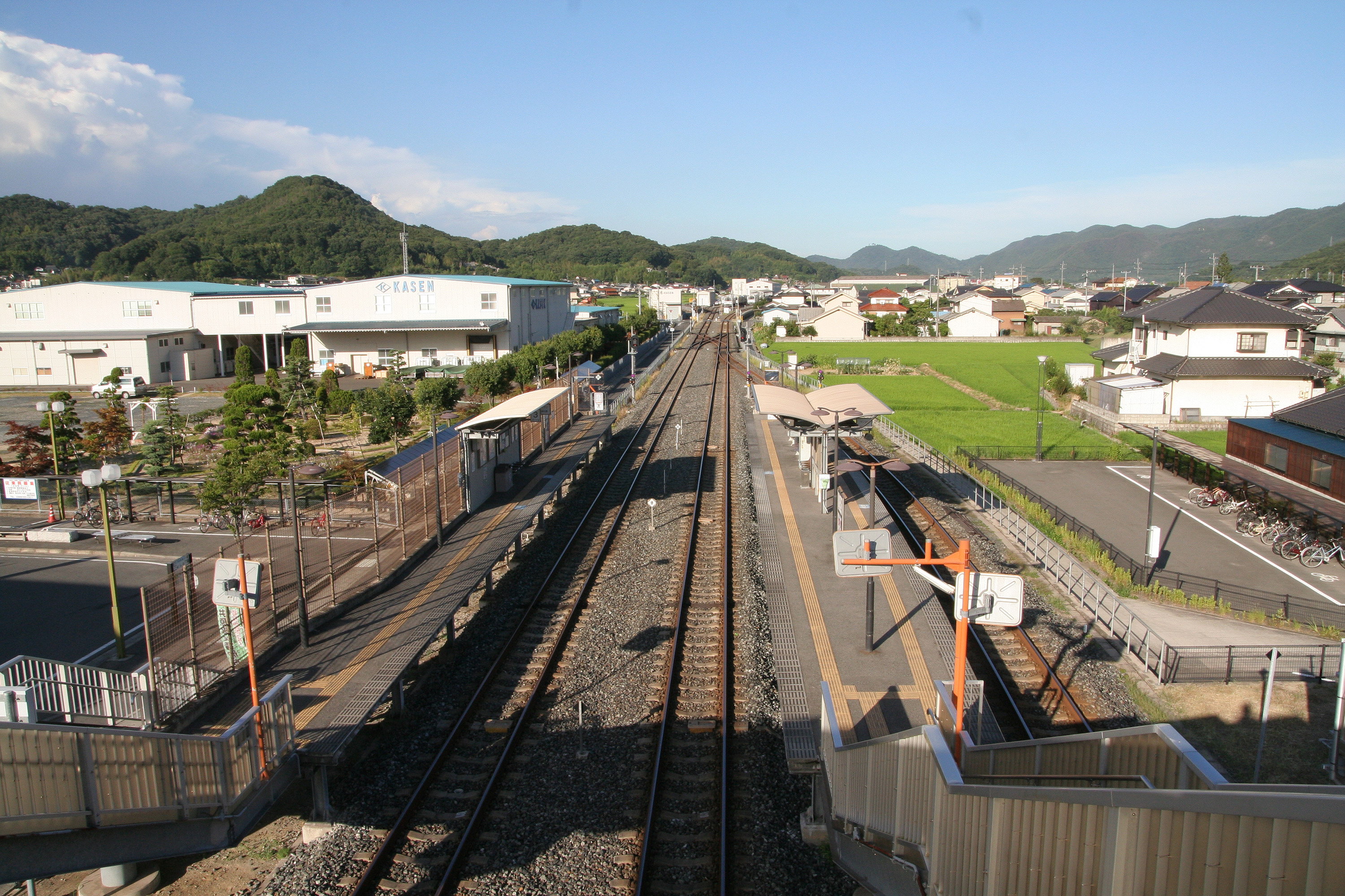 Ibara Railway souun-no-sato-ebara sta enclosure